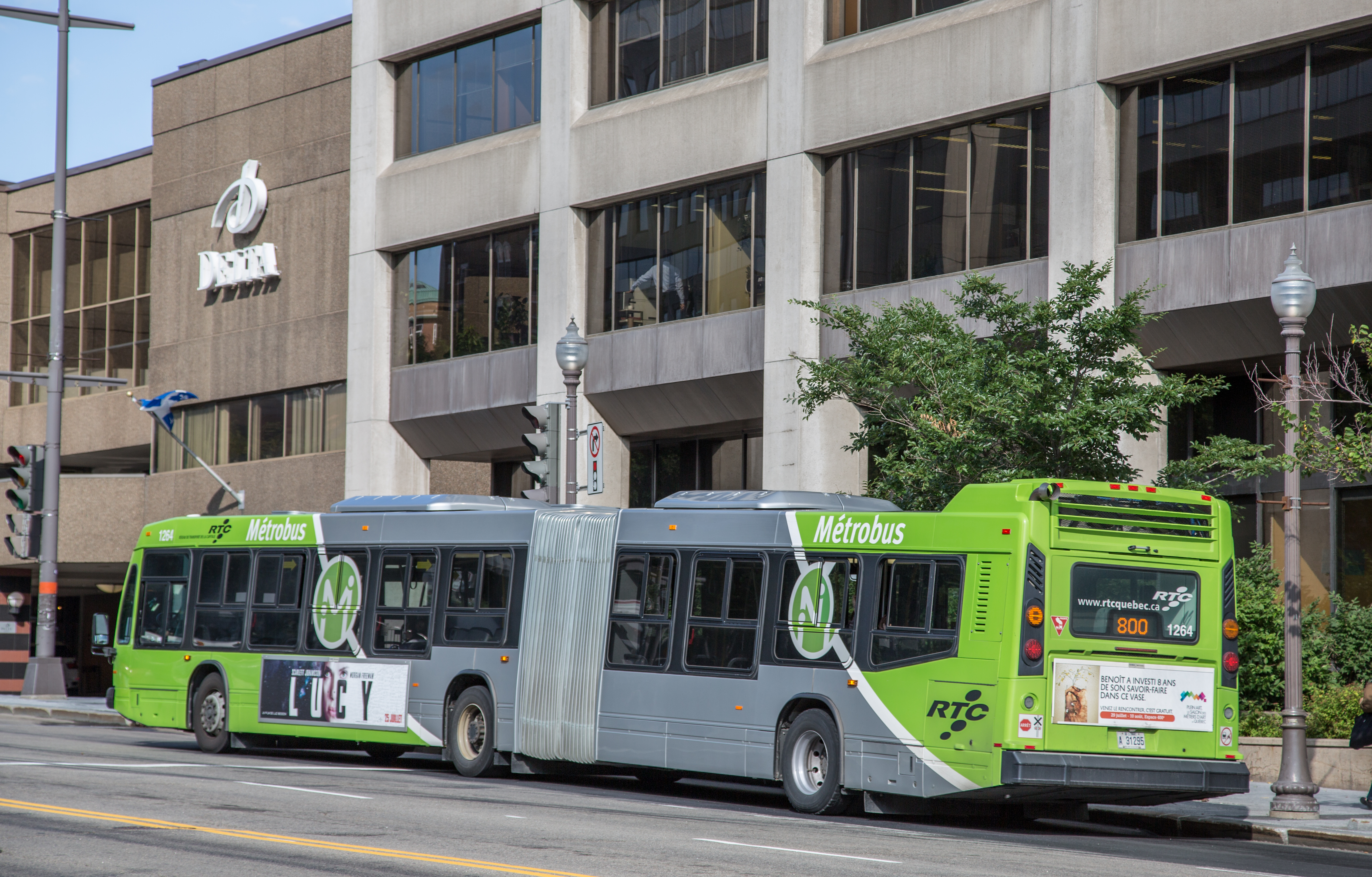 RTC Metrobus, Quebec City